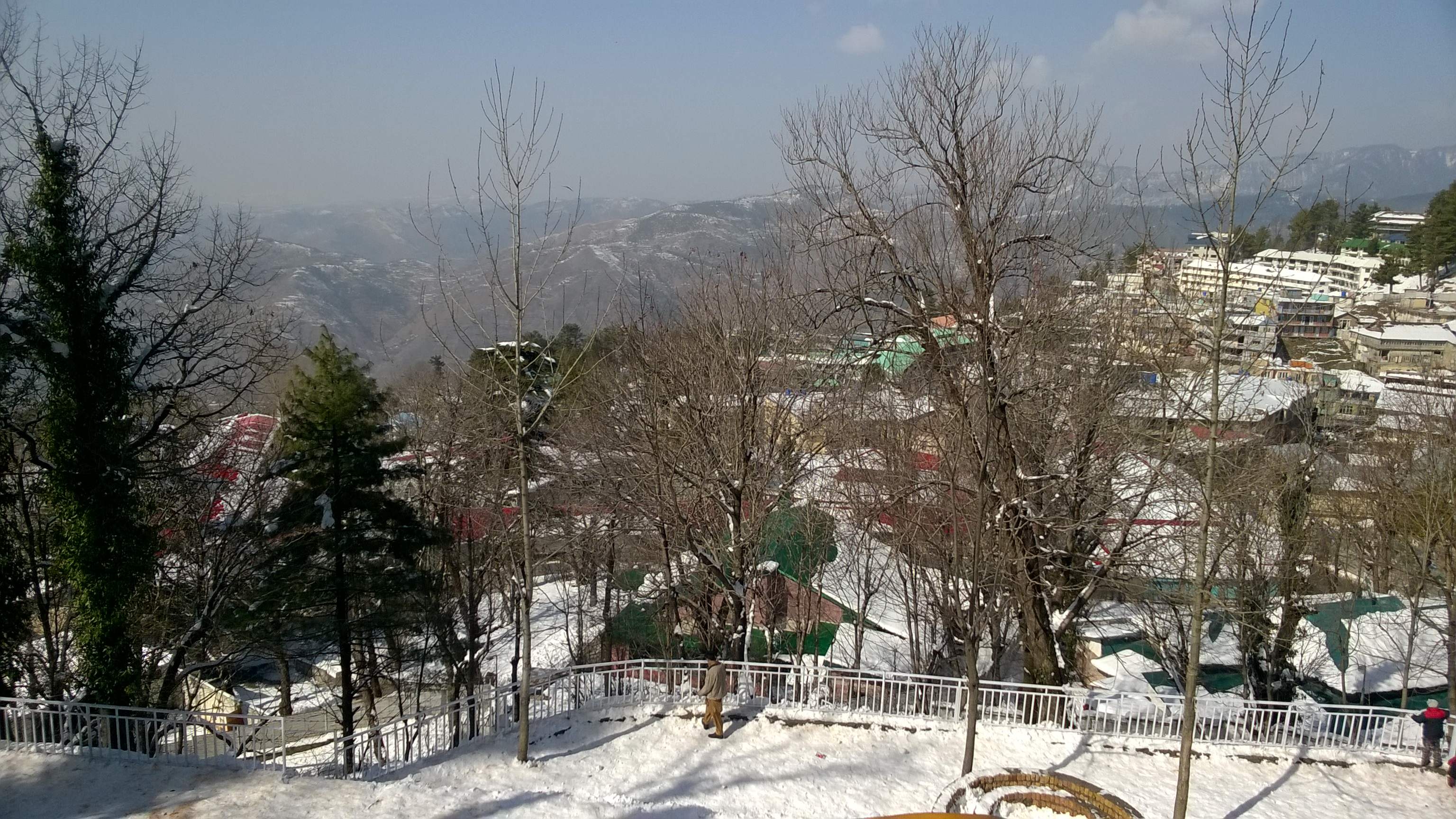 Kashmir point in murree,pakistan.Murree hills in pakistan .having awosome veiws from the top..almost 6000 ft